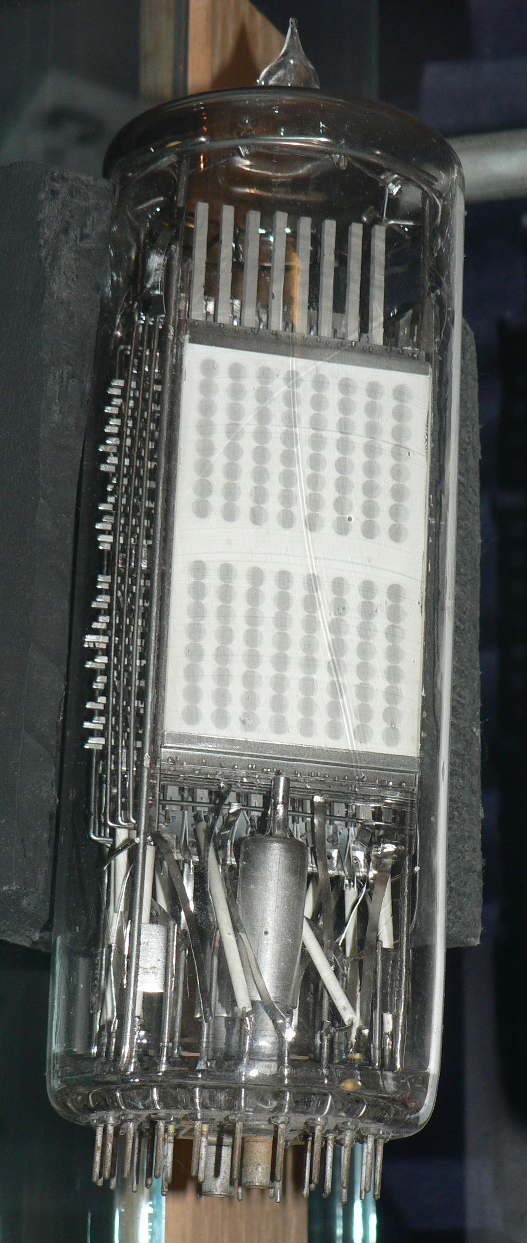 Selectron tube, Stanford museum of computing, William H. Gates building, Stanford University; most probably RCA's SB256 256-bit "Selective Electrostatic Storage Tube"